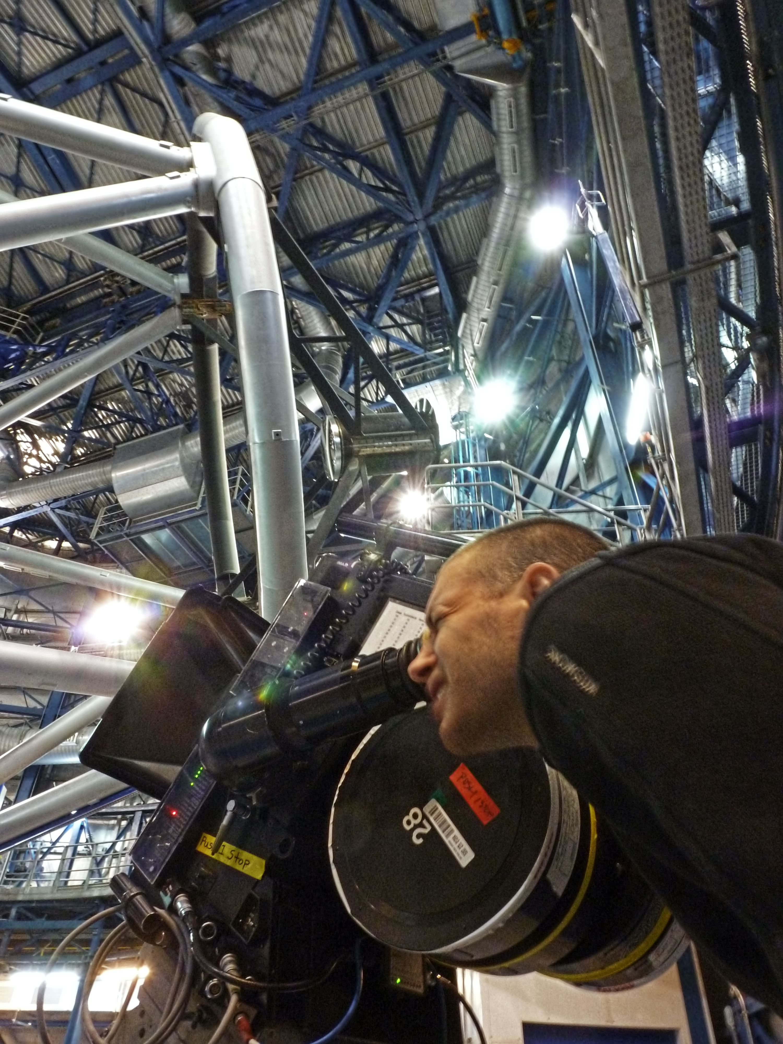 Director Russell Scott takes a look at one the the VLT’s Unit Telescopes through the IMAX Solido 3D camera. Russell and the team from Swinburne 3D Productions were filming at Paranal and ALMA in November 2012 for the IMAX movie Hidden Universe.